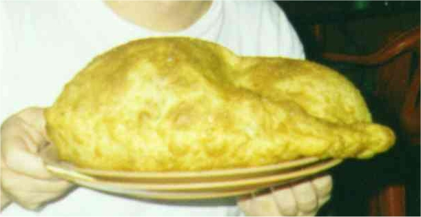 Bhatoora bread, Bangalore, India